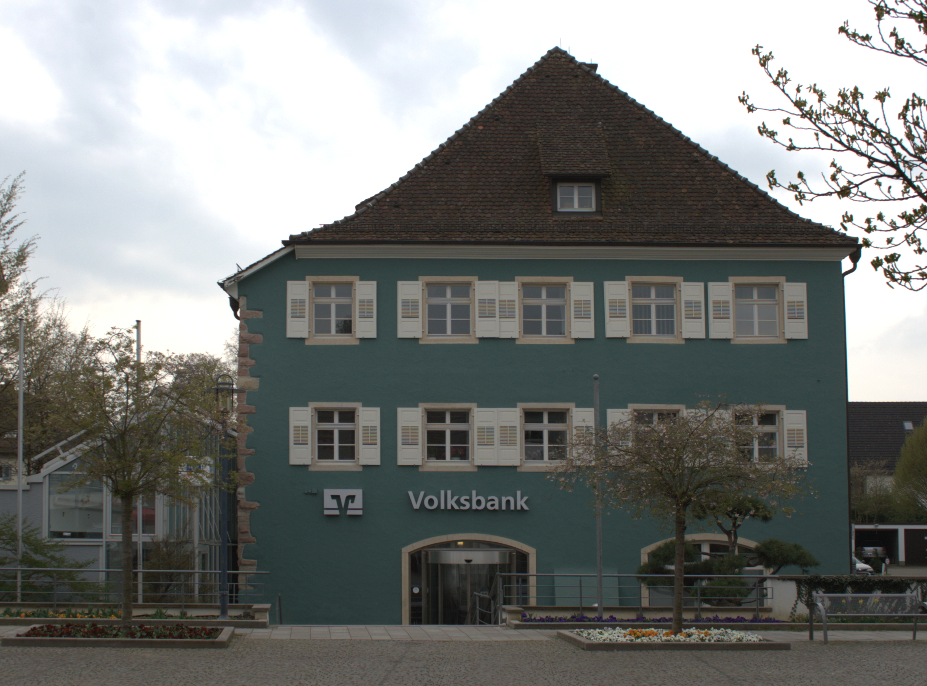 The Pfirt’sches Schlösschen in Bad Krozingen, Lammplatz